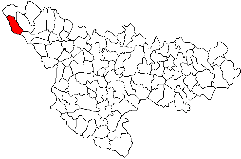 Locator map of the commune of Valcani, Timiș County, Romania